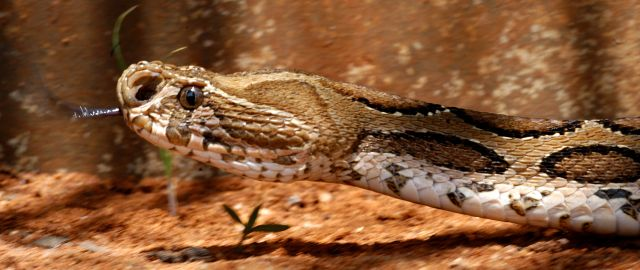 Head of Russells viper, India